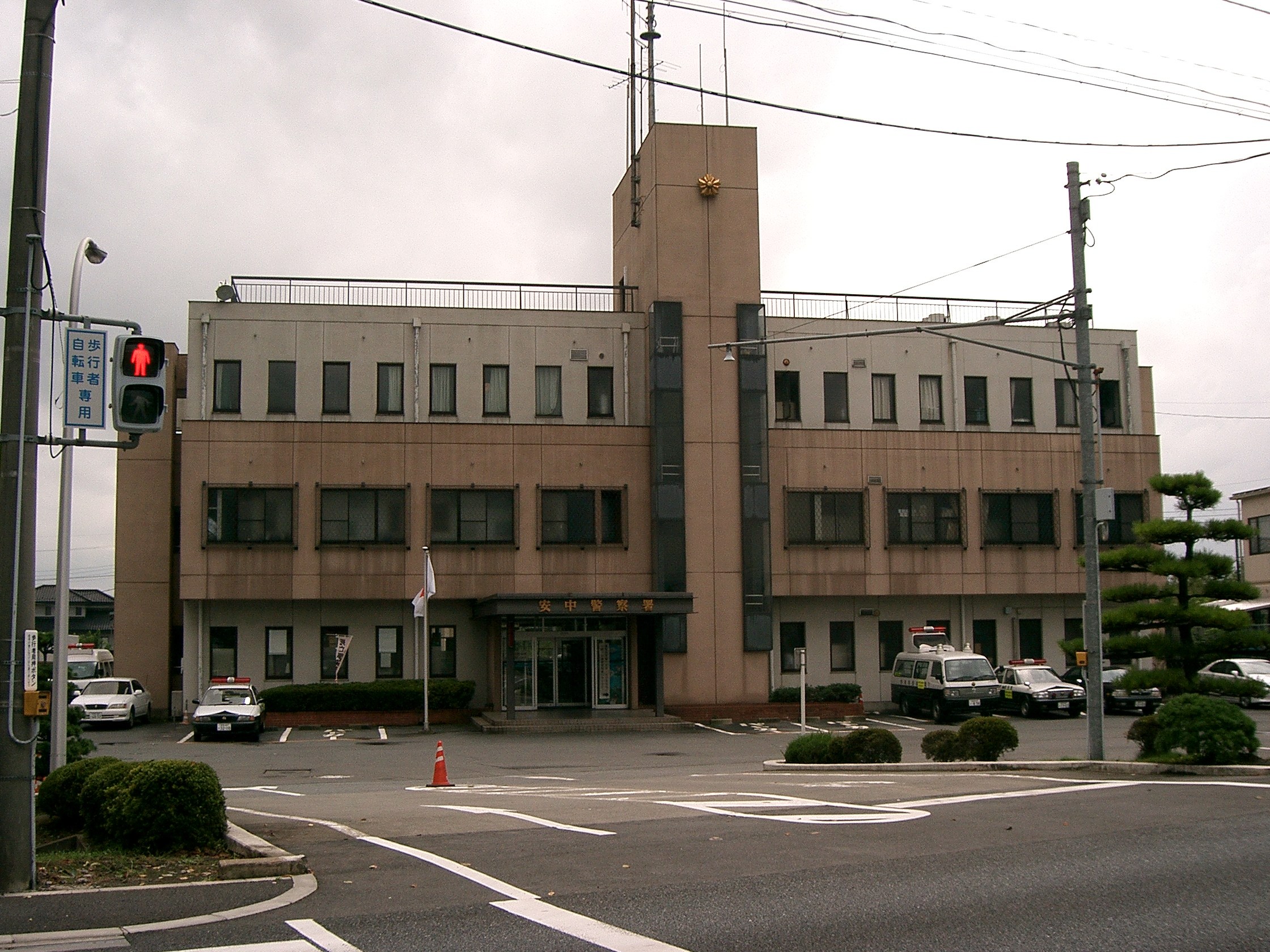 Annaka Police Station